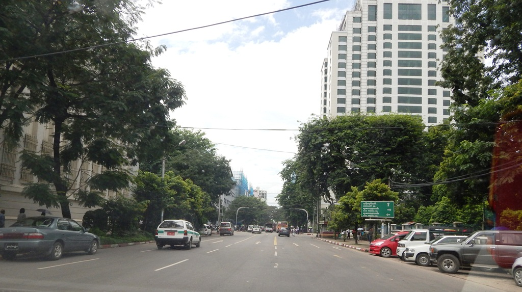 Konthe Road in Yangon, Burma